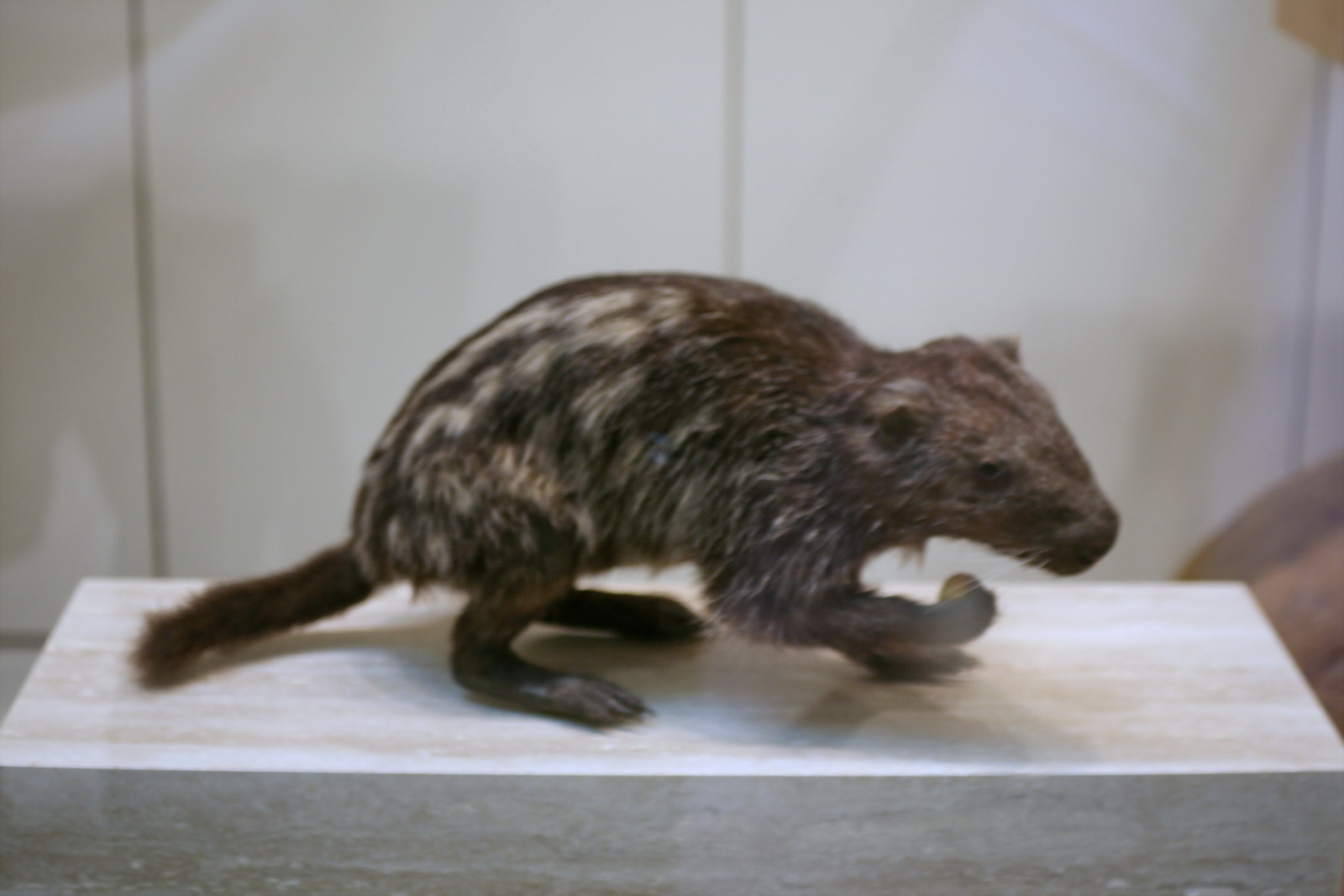 Pacaranas are distributed throughout Western South American from Colombia to Bolivia and inhabit the slopes and valleys of rainforests in the Andes mountains. They are thought to be extremely rare, although some scientists speculate that this might be due to a lack of information about the animal's true habitat. Pacaranas are the third largest living rodent with a head and body length ranging from 730-790mm and a tail length of about 190mm (Anderson 1984). Pacaranas have upper parts that are typically dark brown or blackish with two discontinuous white stripes along the back and a few rows of white spots down each side (Burton 1987, Anderson 1984). The ears are relatively short and curved, the upper lip has a deep cleft, and pacaranas have many long, greyish whiskers. The feet are plantigrade and there are four digits on each foot, each with a long and powerful claw.